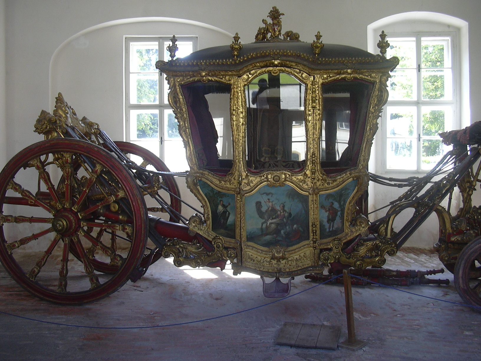 State coach of the Archbishops of Olomouc